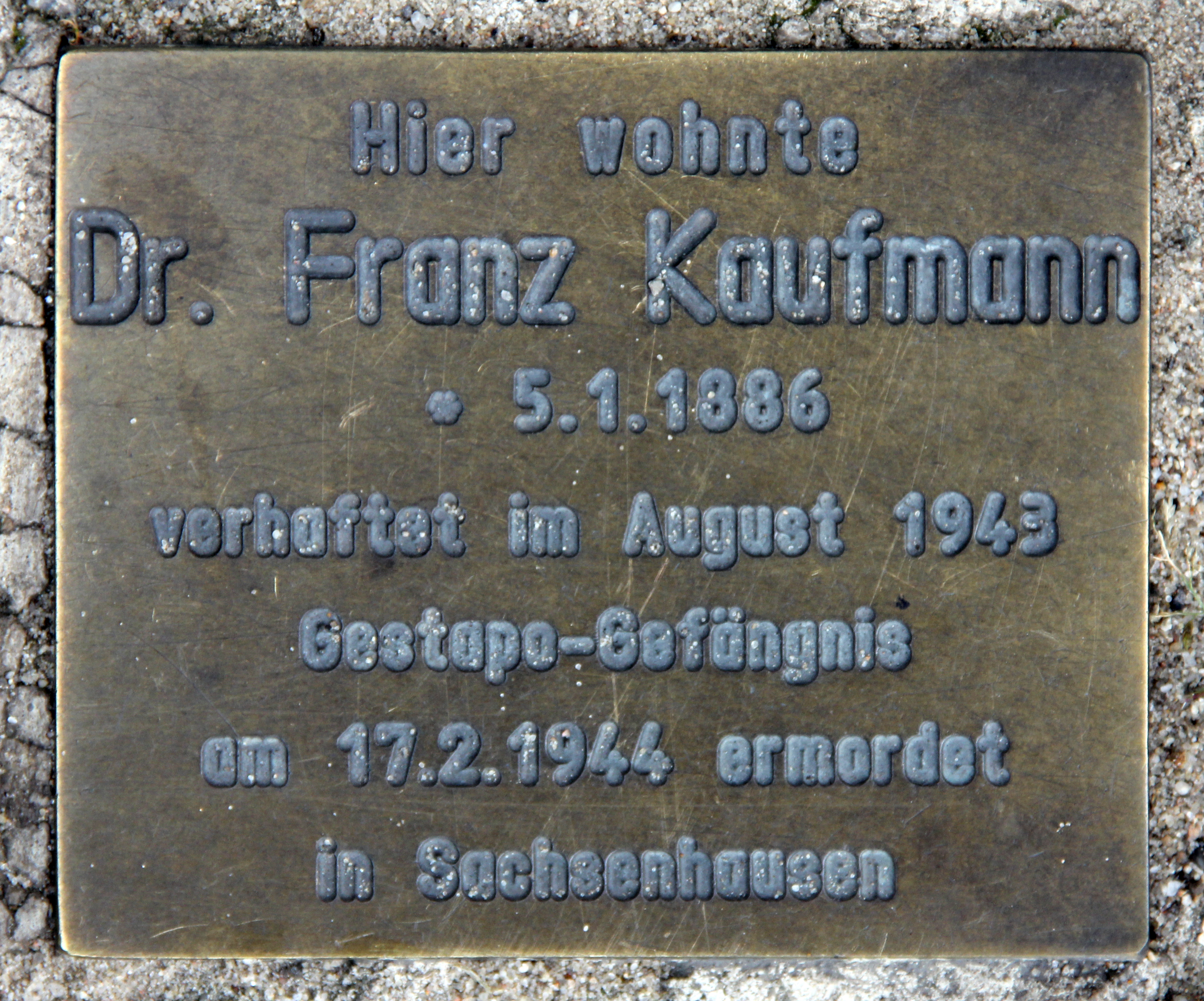 Memorial stone, Franz Kaufmann, Kurfürstendamm 125, Berlin-Grunewald, Germany